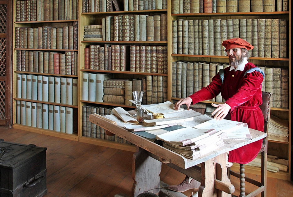 Leisnig, Mildenstein Castle, former administration room.